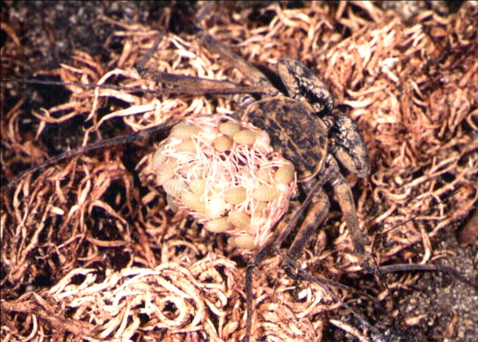 Female tailless whip scorpion (Damon diadema) carrying young.